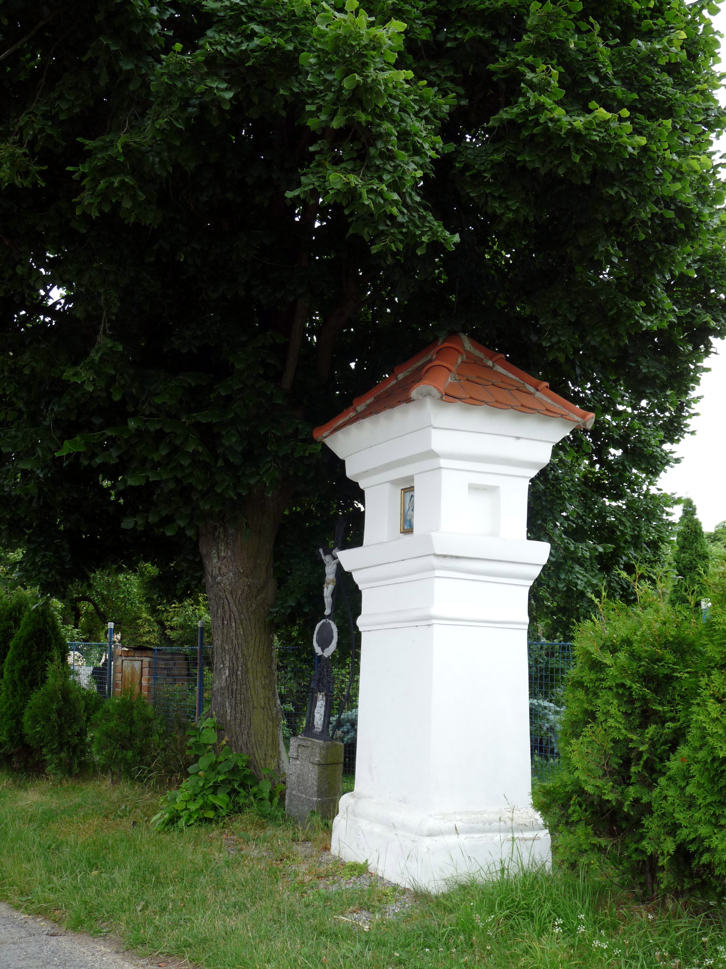 Wayside shrine and cross in the vilage of Nuzice, České Budějovice District, South Bohemian Region, Czech Republic (part of the town of Týn nad Vltavou).